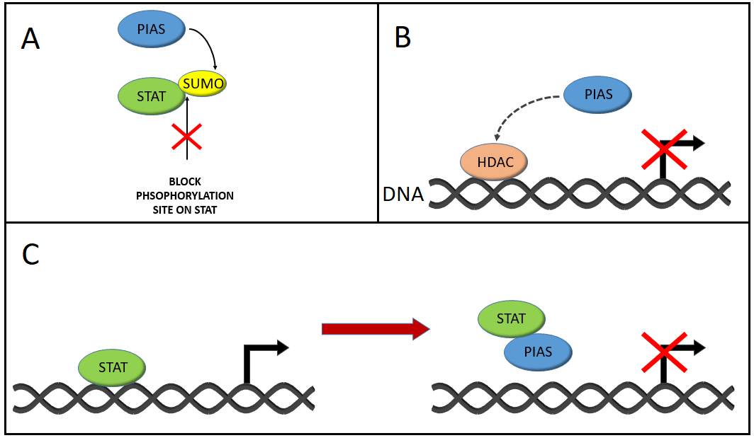 Schematic of mechanisms of PIAS protein inhibition of STATs. By SUMOylation, HDAC recruitment and preventing DNA binding.